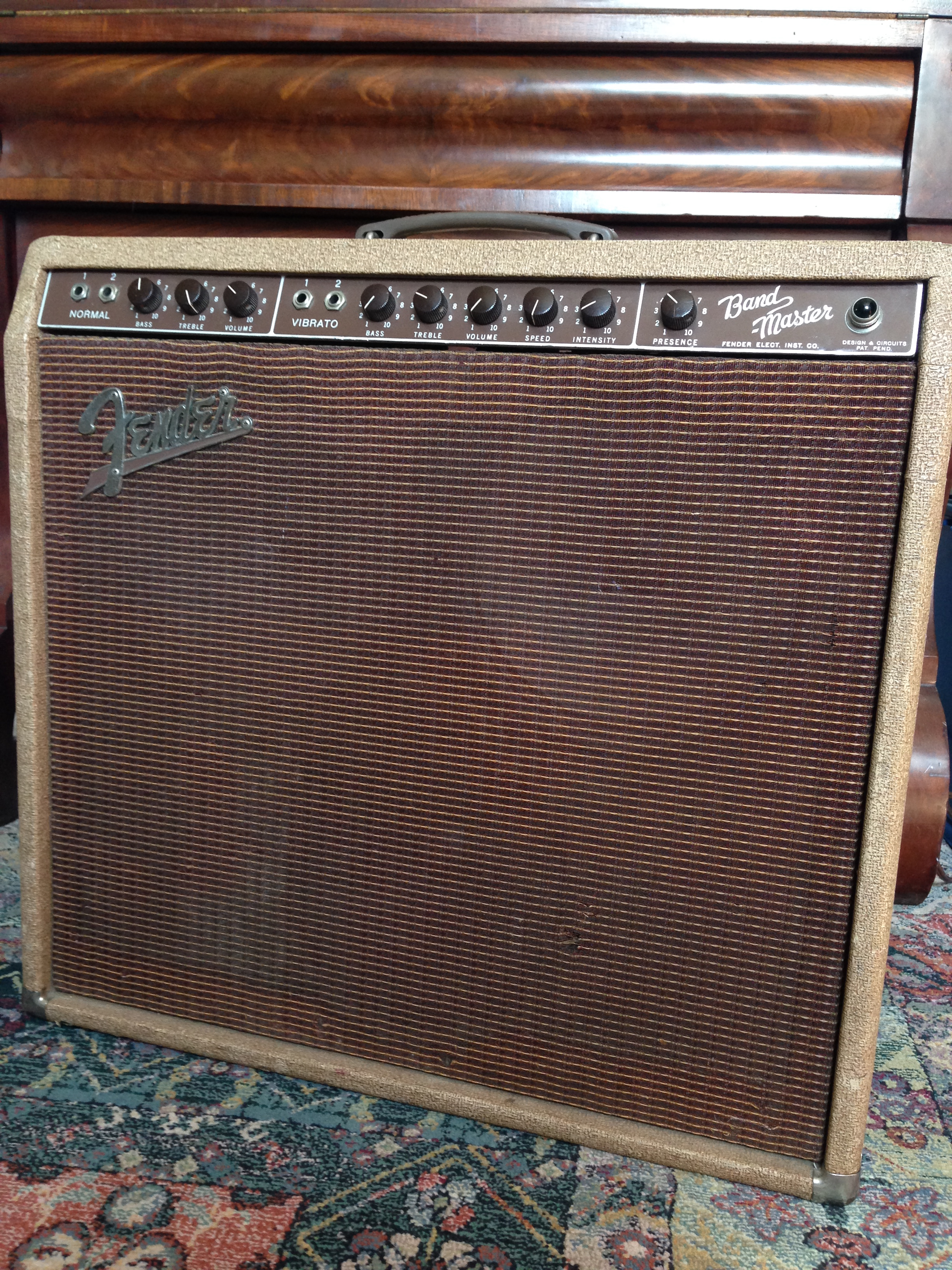 Early production 5G7 Bandmaster Amp, April 1960, center-volume control, 3-10" Jensen alnico speakers